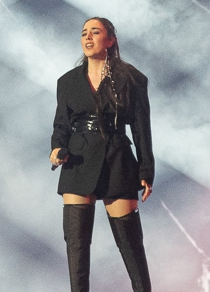 At the 2019 Eurovision Song Contest Semi-final 2 dress rehearsal